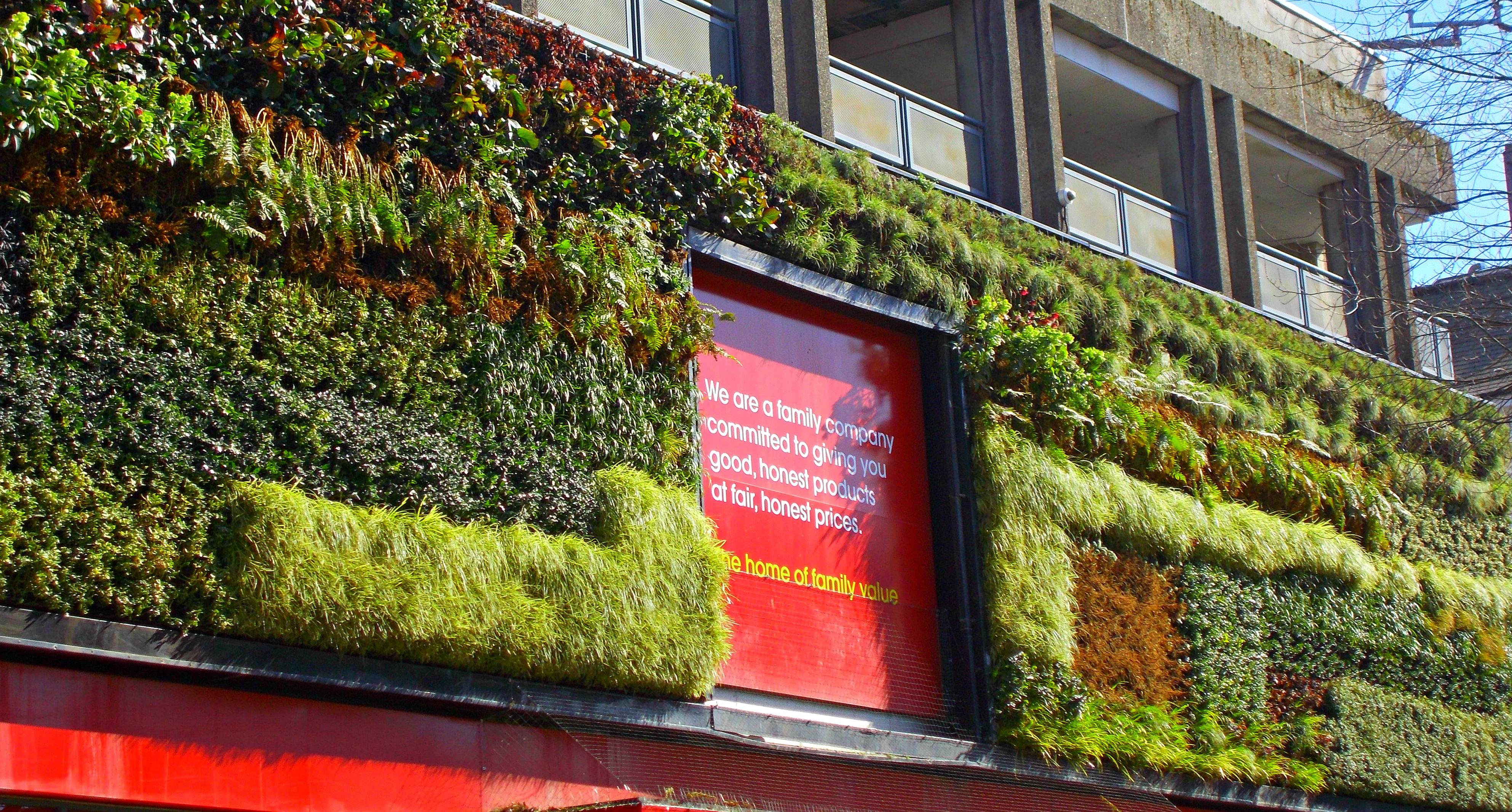 Sutton, Surrey, Greater London